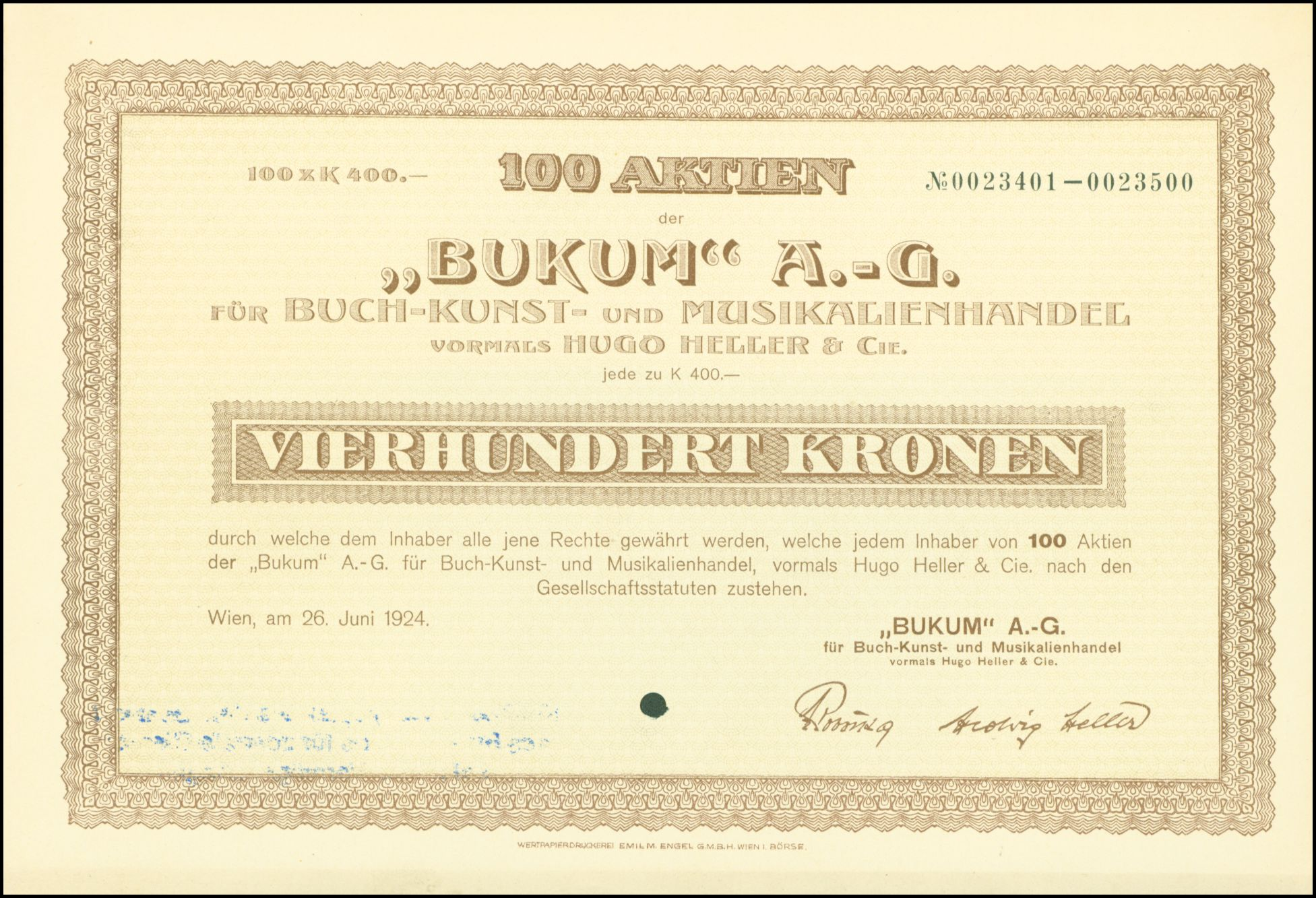 Share of the Bukum AG, issued 26. Juni 1924